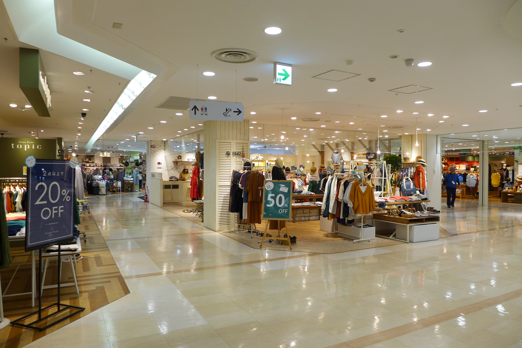 Matsumoto Station MIDORI interior